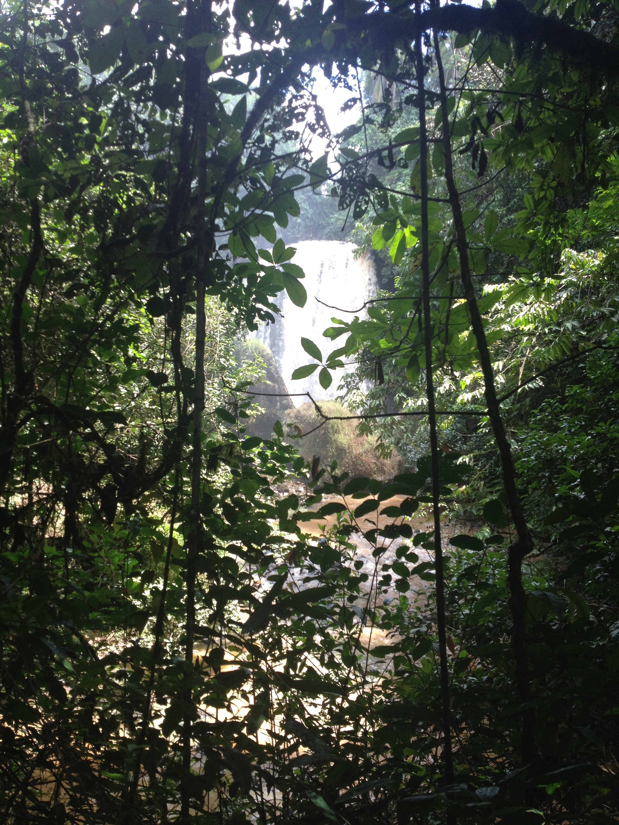 Chute Bamena